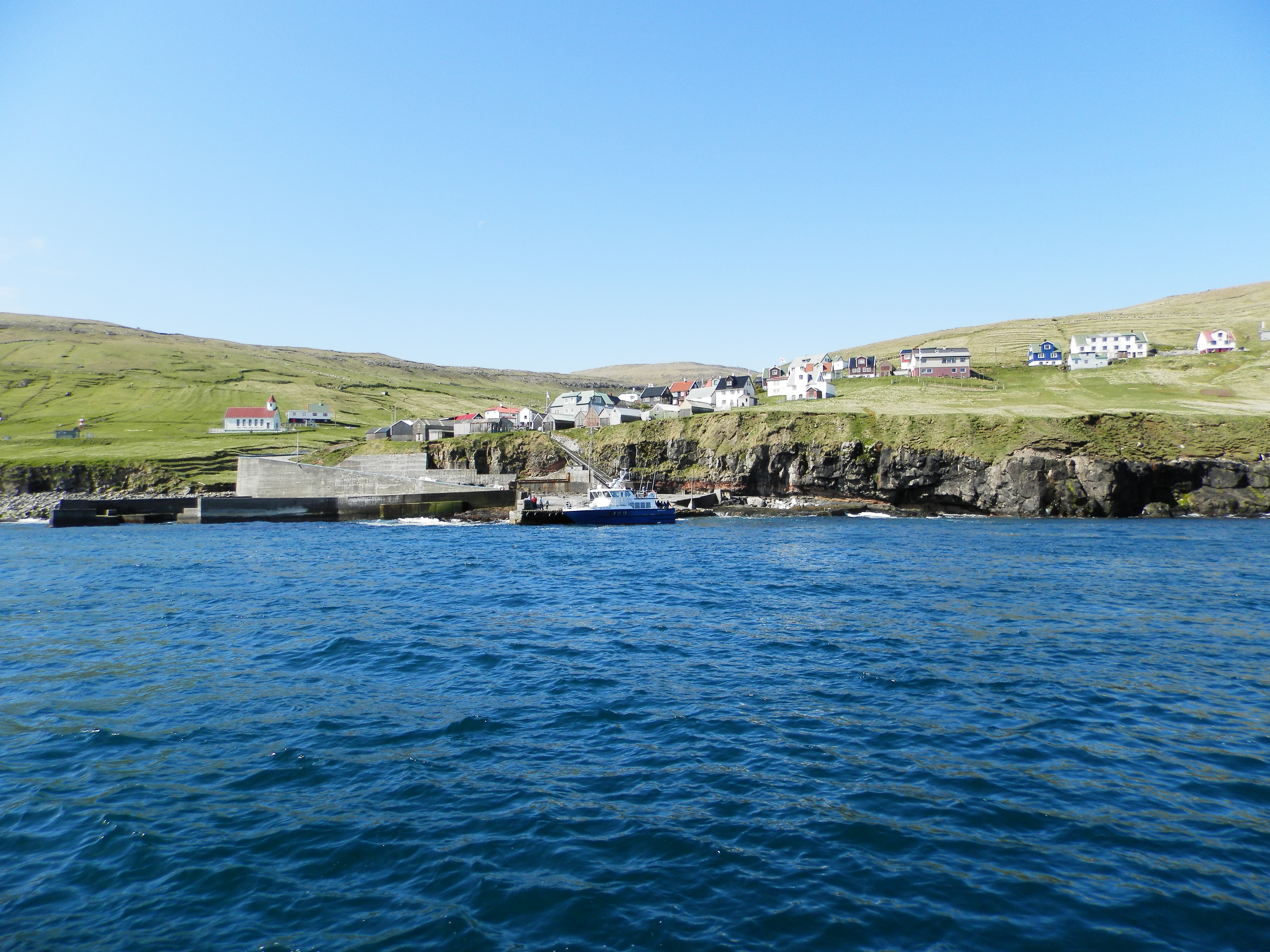 Skúvoy is a village on the island with the same name in the Faroe Islands. Some people call the island Skúgvi. The population as of 1 January 2013 was 36. This photo was taken on 1 June 2013.